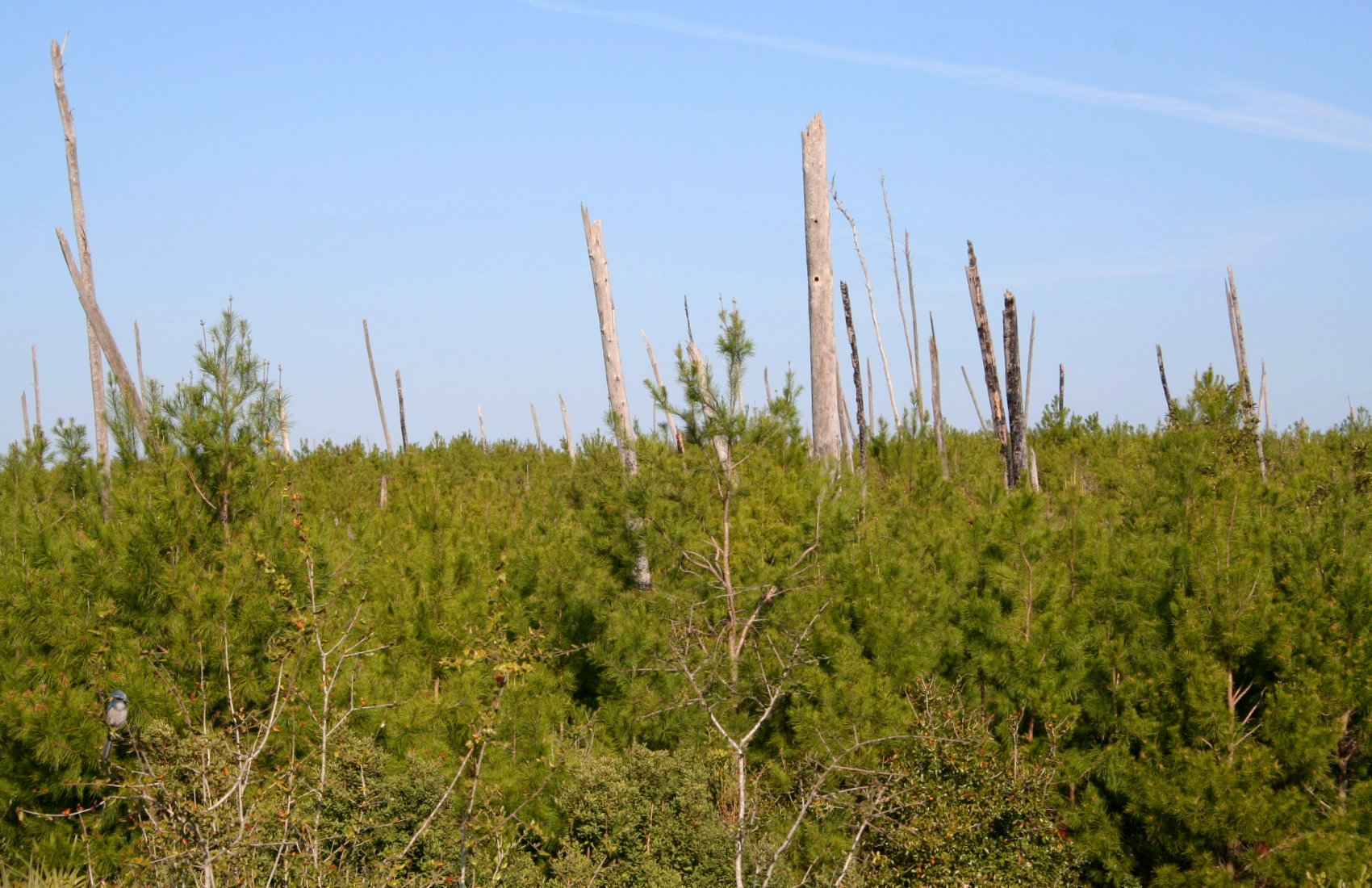 Photograph of the Juniper Prairie Wilderness in the Ocala National Forest, Florida, USA. Trees are mostly Sand Pine Pinus clausa. Note Florida Scrub Jay at lower left corner of photo. Taken by Rolf Müller on January 28 2006 using a Canon Inc. EOS 350D digital camera with an EFS 18-55mm lens.